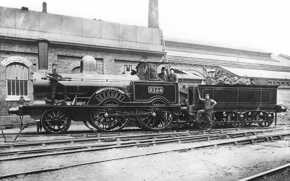 Photograph of LNWR engine No. 2154 'Loadstone'